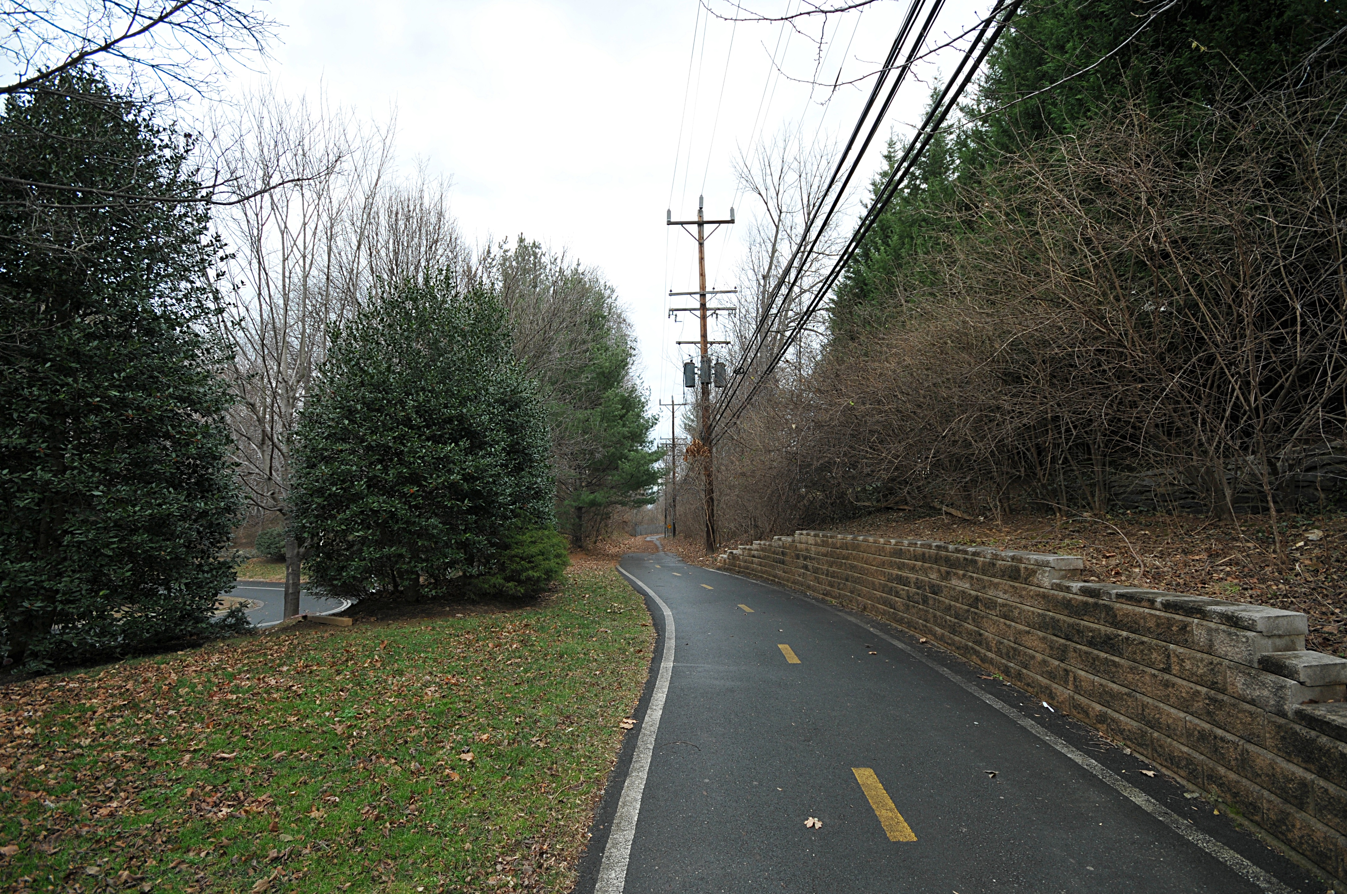 The North Bethesda Trail at Montgomery Dr in Bethesda, Maryland